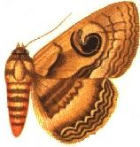 PLATE CCVIII.